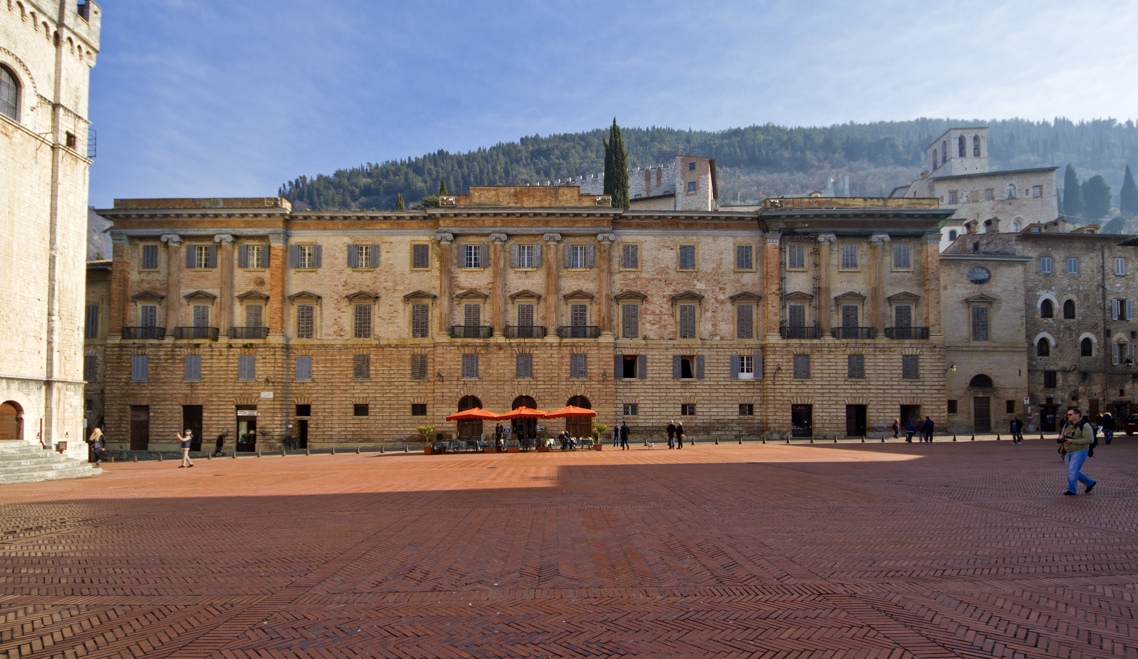 06024 Gubbio, Province of Perugia, Italy